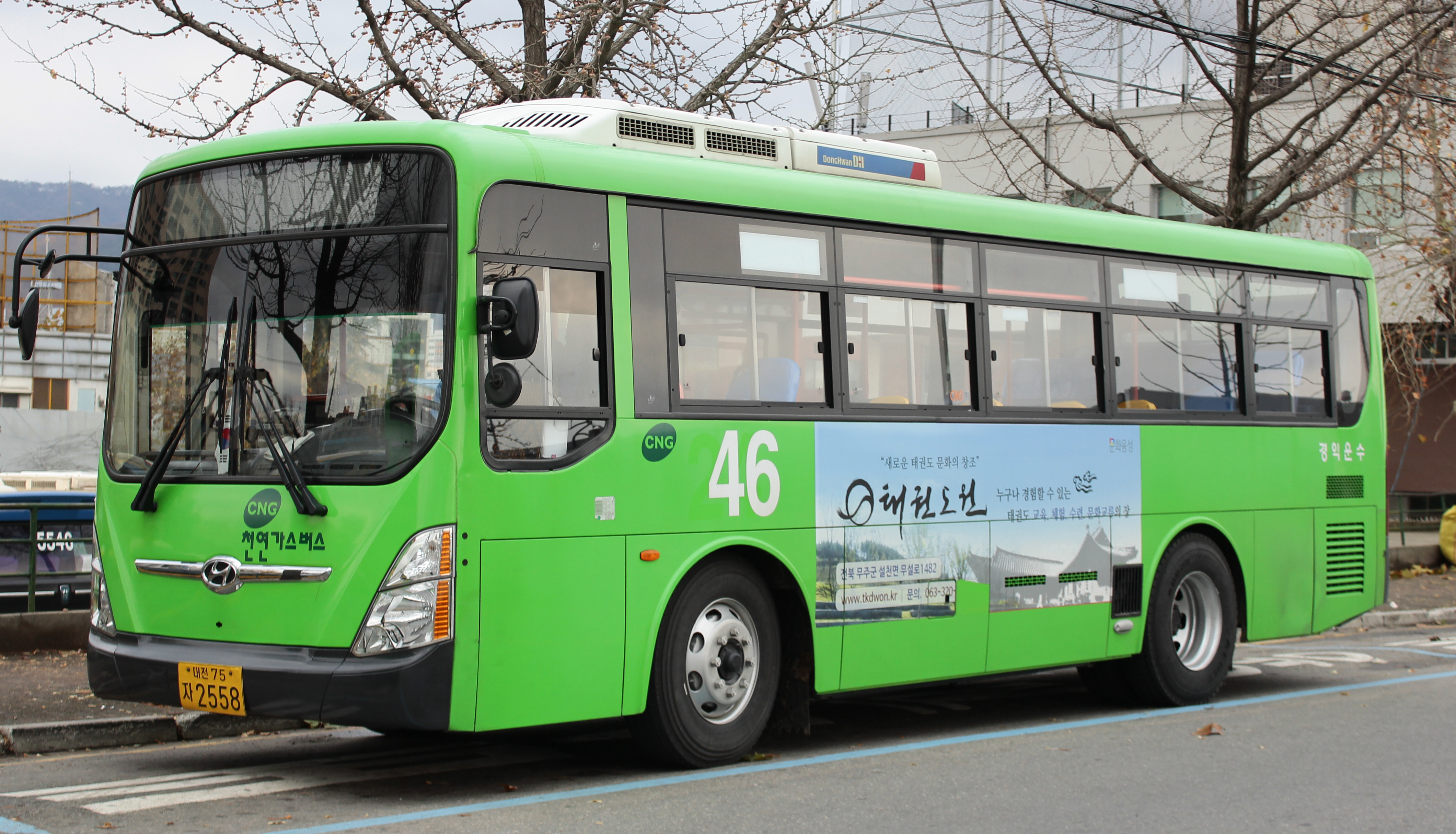 Hyundai Green City Motorcoach